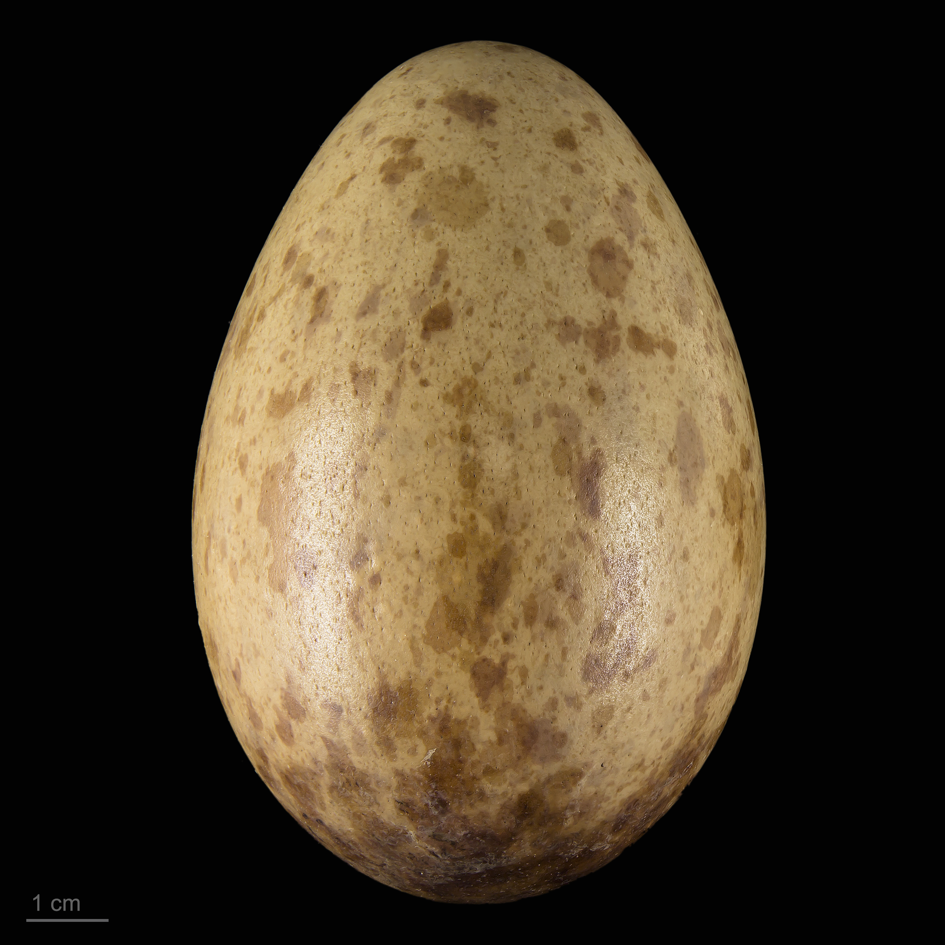 Eggs of common crane collection of Jacques Perrin de Brichambaut.